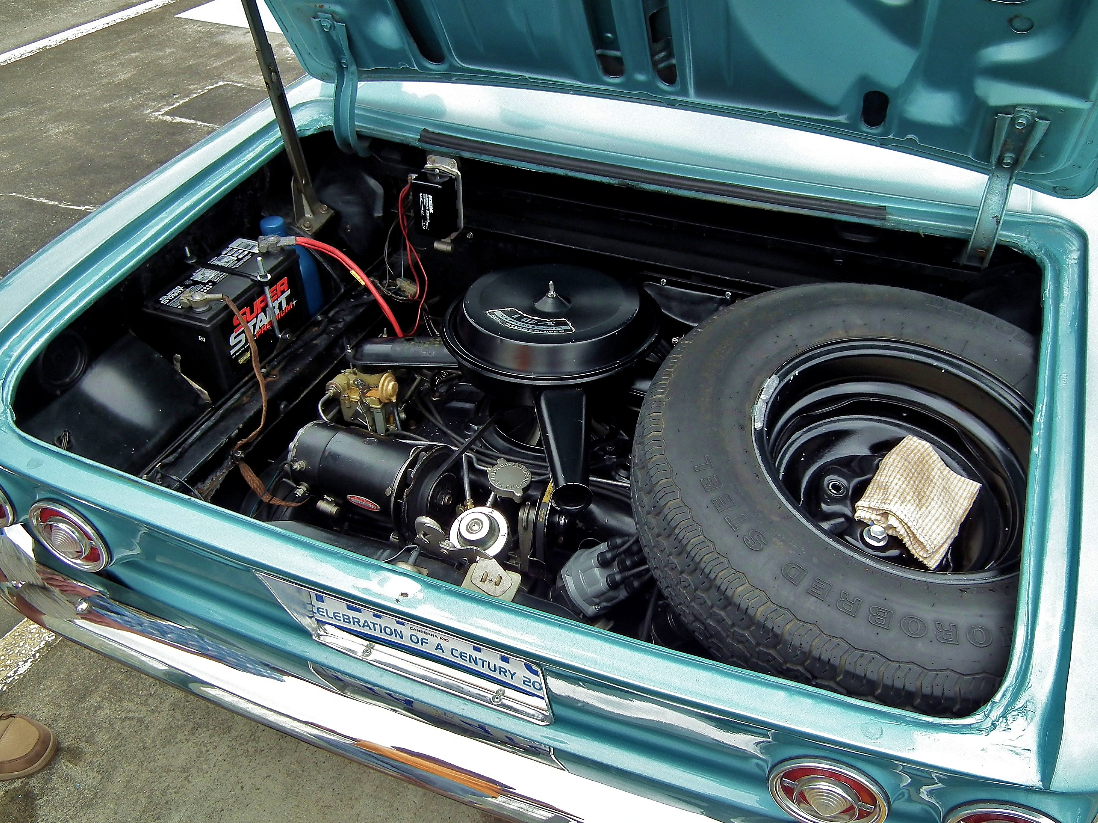 1964 Chevrolet Corvair Monza coupe engine. Taken at the 2012 New South Wales All American Day, held at Castle Towers Shopping Centre, Castle Hill, Sydney.